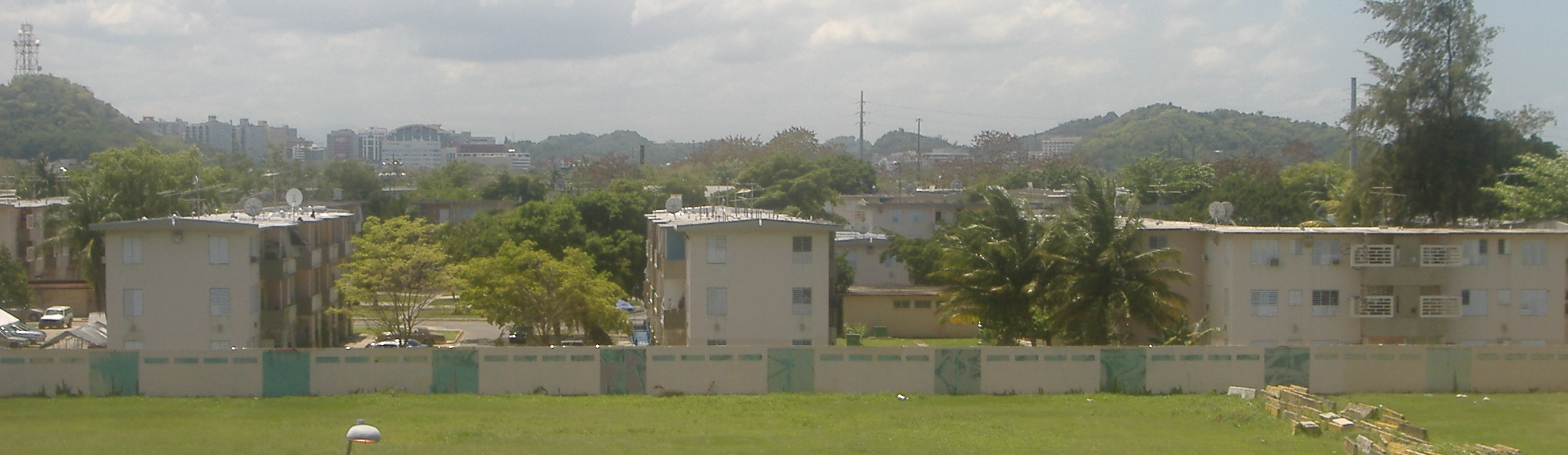 Picture of a Public Housing Project in San Juan, Puerto Rico.